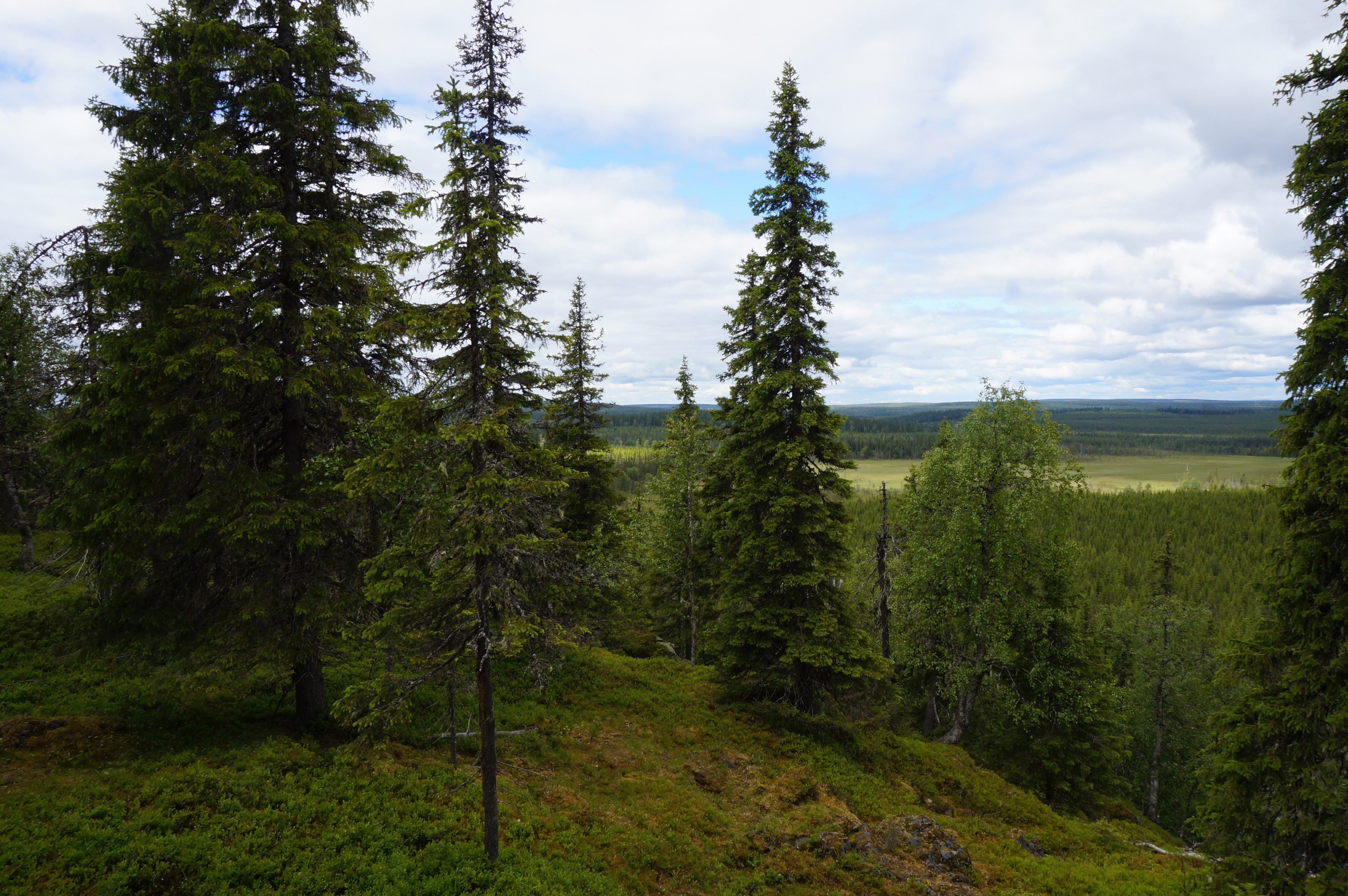 Landscape of Tilsa